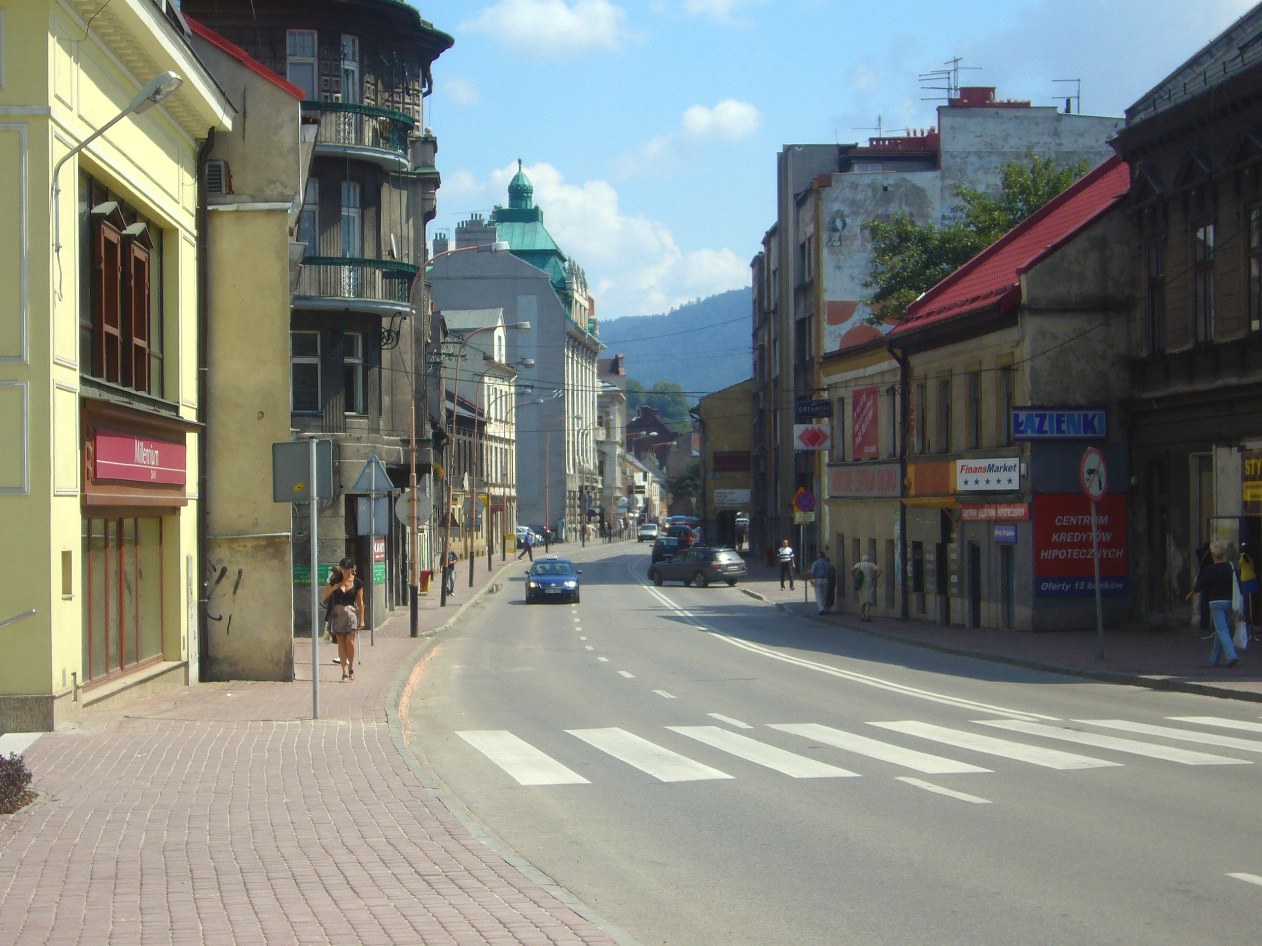 Stanisław Stojałowski Street in Bielsko-Biała, Poland.